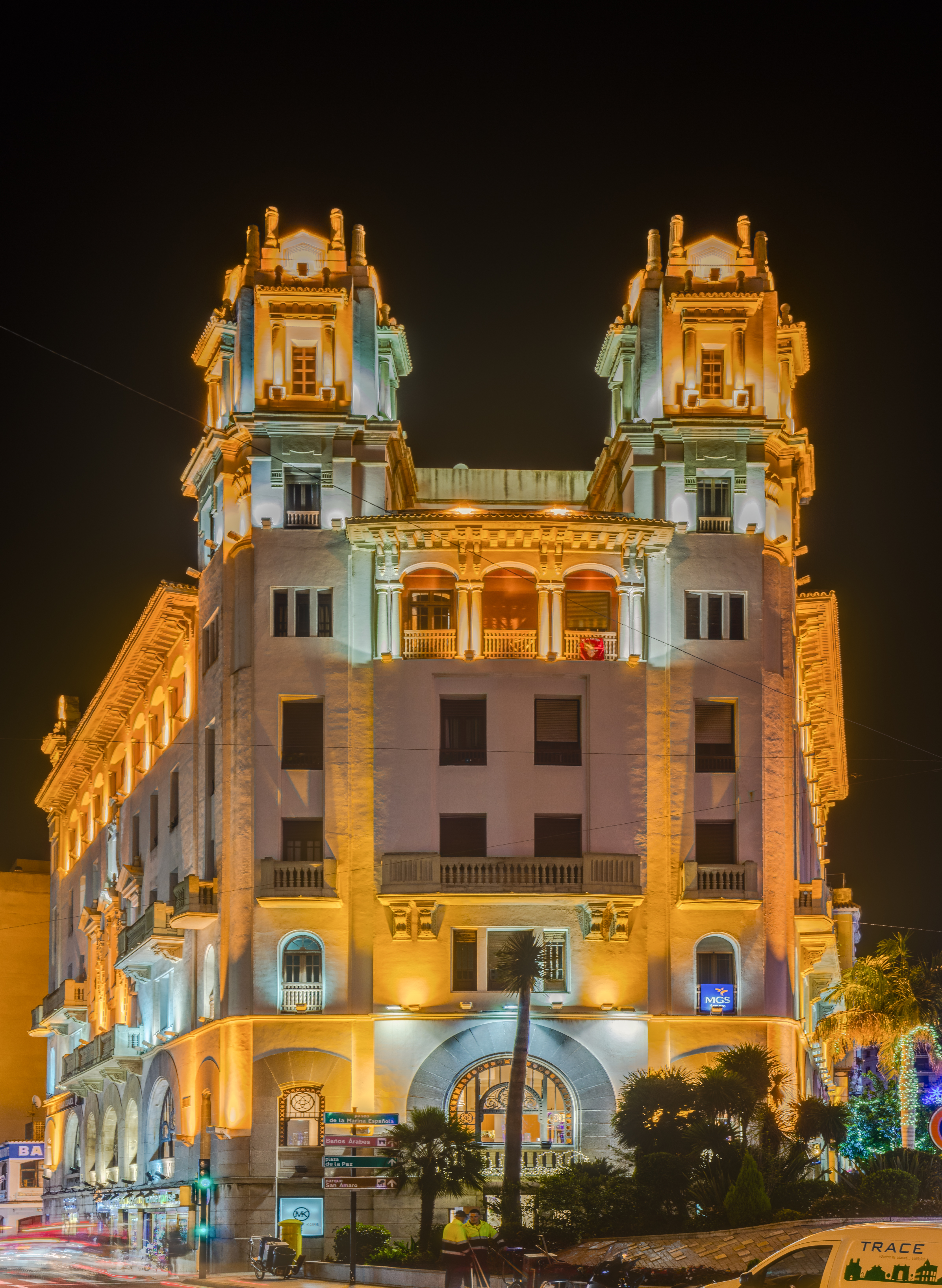 Trujillo Building, Ceuta, Spain.